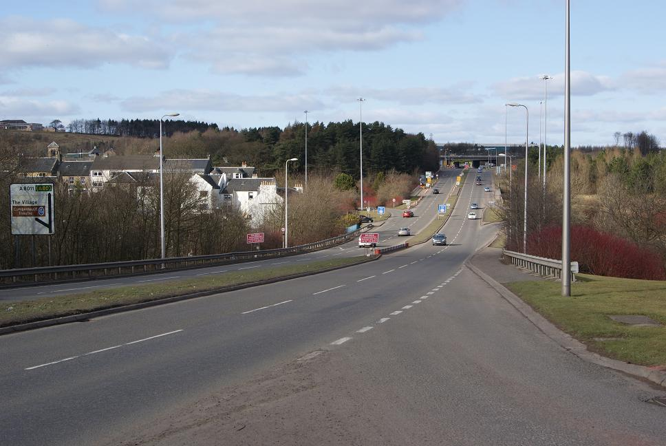 Looking North from Wilderness Brae The A8011 or "Wilderness Brae" to locals. Cumbernauld Village to left of picture.